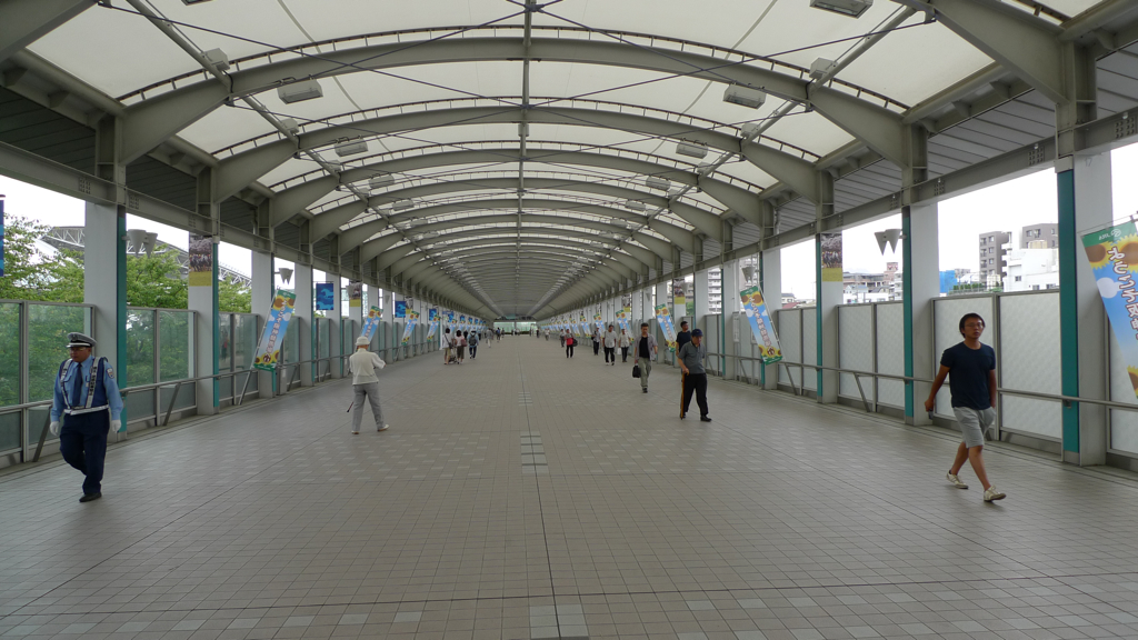 Hanshin Racecourse